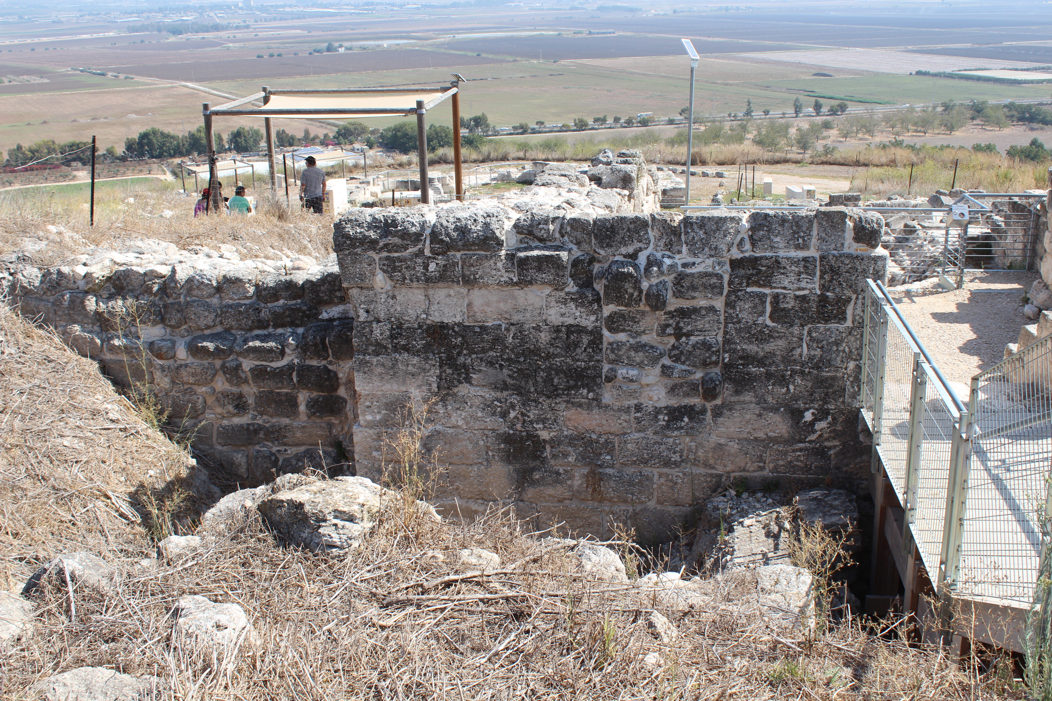 Crusader period remains - the smaller, northern tower,Tel Yokneam The site's ID in Wiki Loves Monuments photographic competition is 16-0240-100